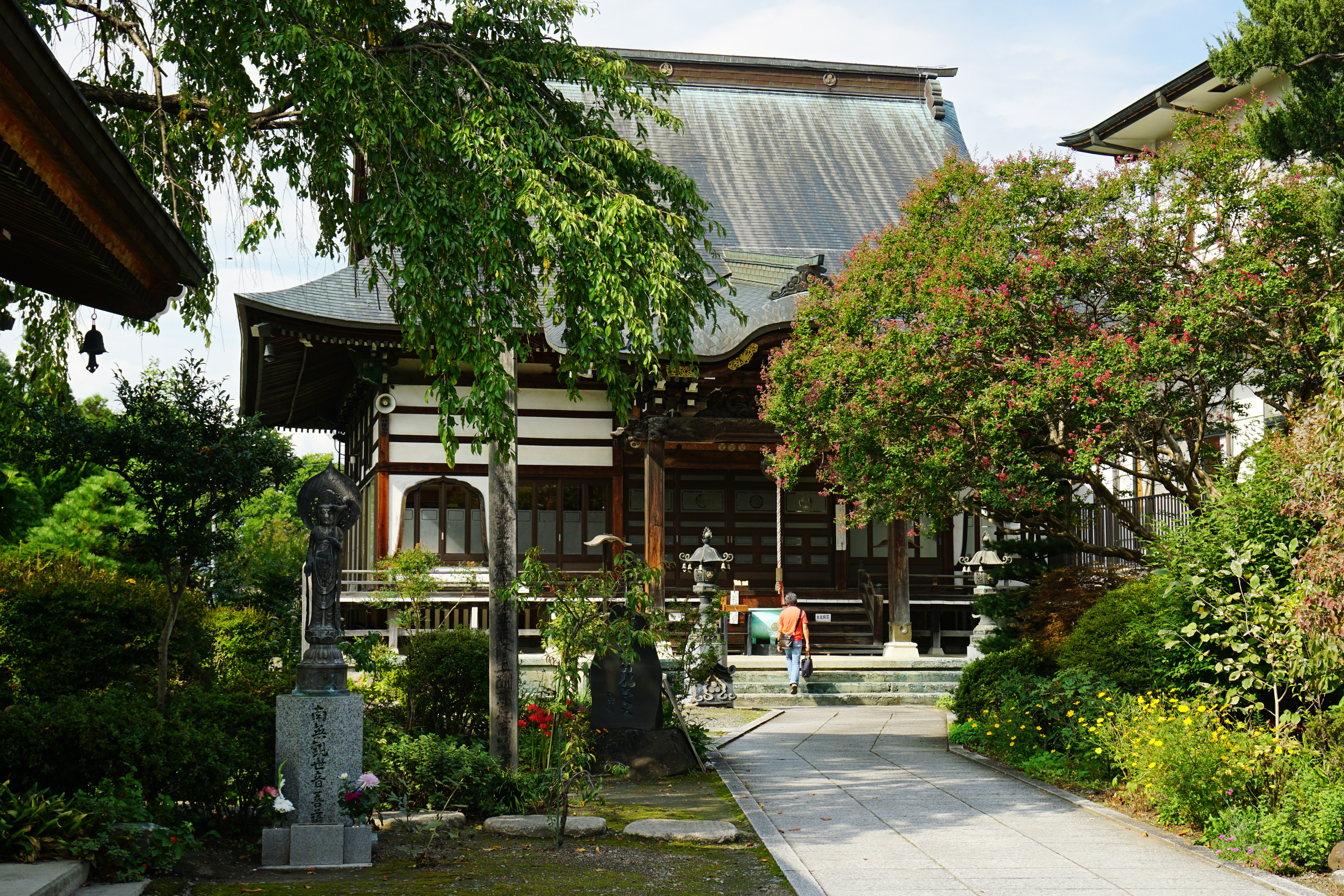 Tōkō-ji in Azumino, Nagano prefecture, Japan